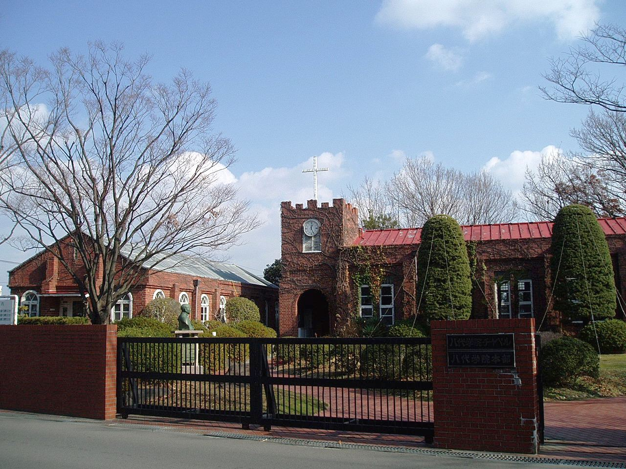 Chapel of Yashiro Gakuin Educational Foundation, which runs St. Michael's High School and Kobe International University. Located in Tarumi-ku, Kobe, Hyogo, Japan.